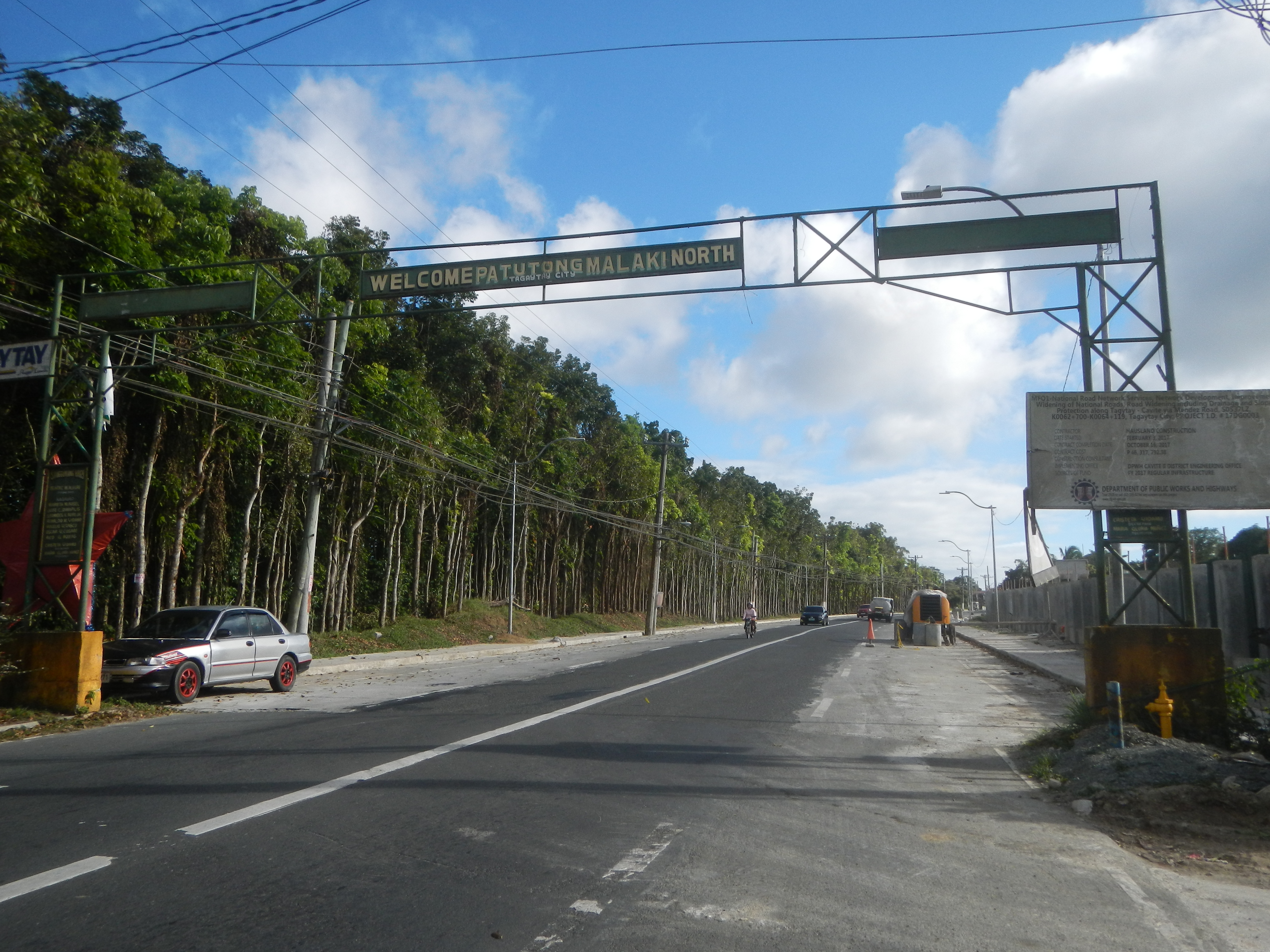 Royal Villa Mendez Barangay Patutong Malaki North, Tagaytay City 14°6'44"N 120°54'54"E Tagaytay Welcome arch-signs of Patutong Malaki North, Tagaytay City & (Galicia III) Mendez, Cavite Mendez–Tagaytay Road Barangays Poblacion I, II, III, IV, V, VI & VII (Barangays I, II, III, IV, V, VI & VII), Mendez, Cavite 14°7'49"N 120°54'20"E Bukal 14°9'59"N 120°55'57"E Galicia I, II & III, Mendez, Cavite 14°7'39"N 120°54'23"E Mendez, Cavite Indang–Mendez Road N402 highway (Philippines) N402 highway (Philippines - Indang to Mendez Road) to N402 highway Philippine highway network (Note: Judge Florentino Floro, the owner, to repeat, Donor Florentino Floro of all these photos hereby donate gratuitously, freely and unconditionally all these photos to and for Wikimedia Commons, exclusively, for public use of the public domain, and again without any condition whatsoever).